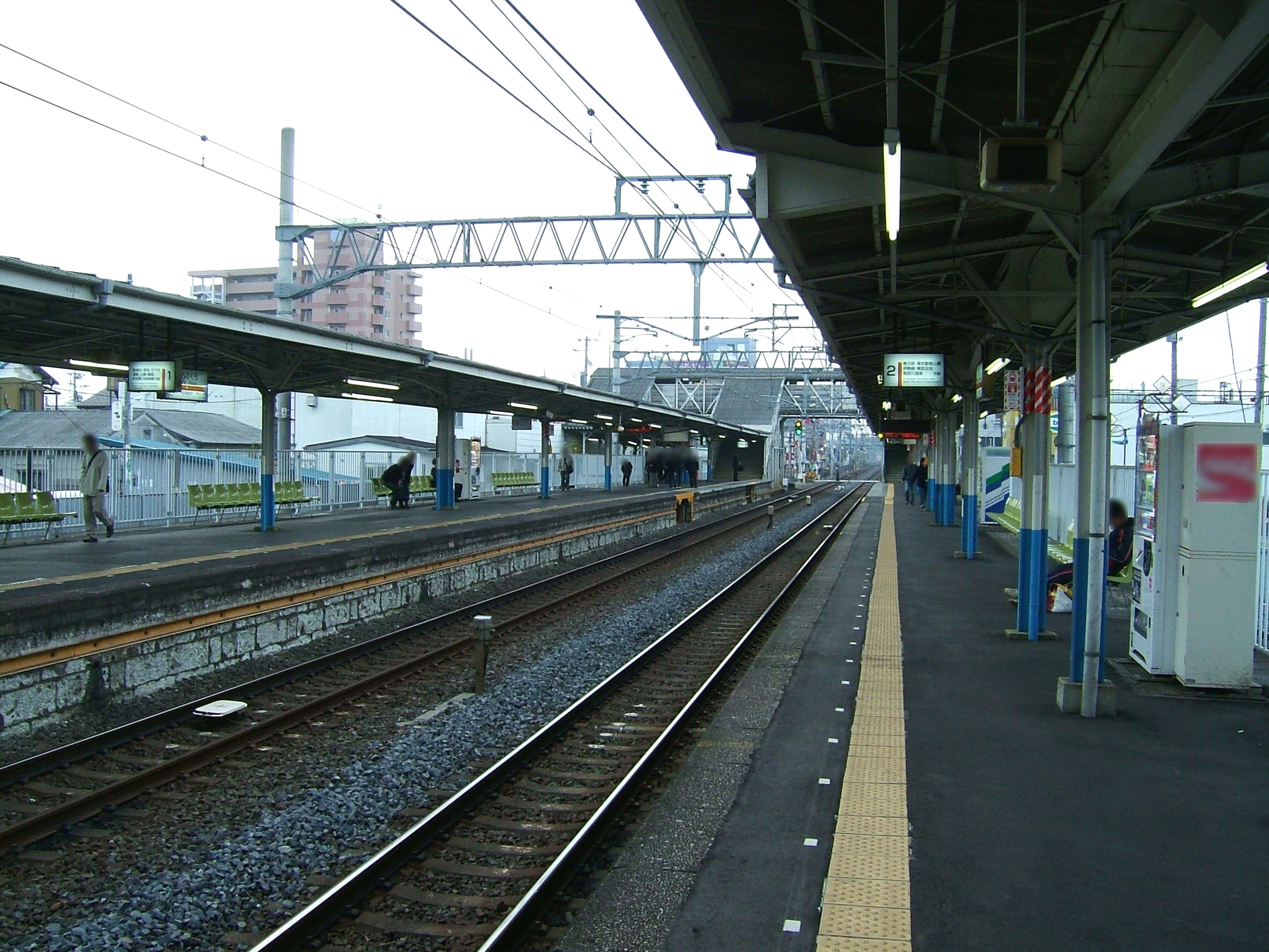 Ōbukuro Station platform (Tōbu Railway Isesaki Line)